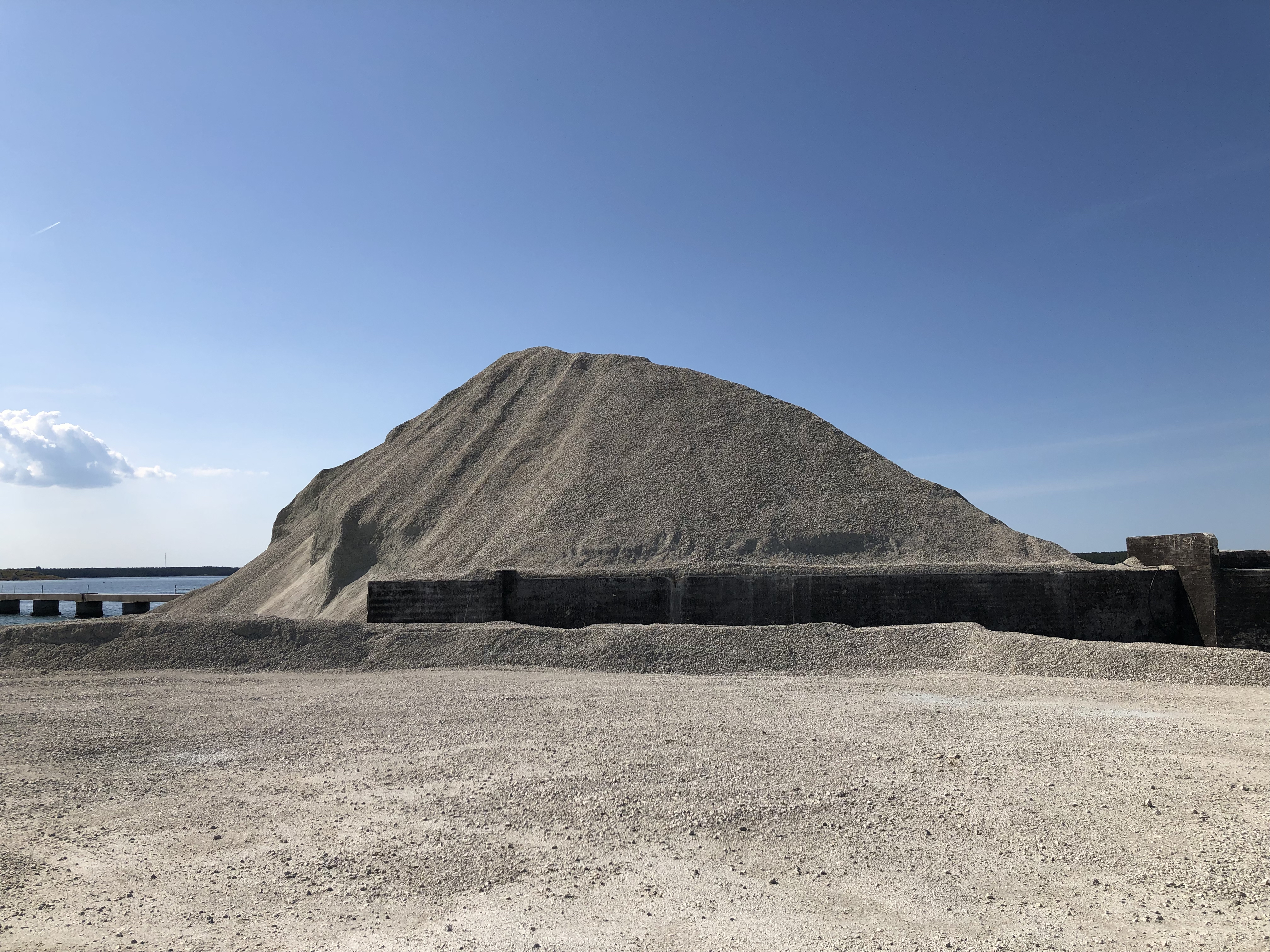 Lime stone pile at Furillen